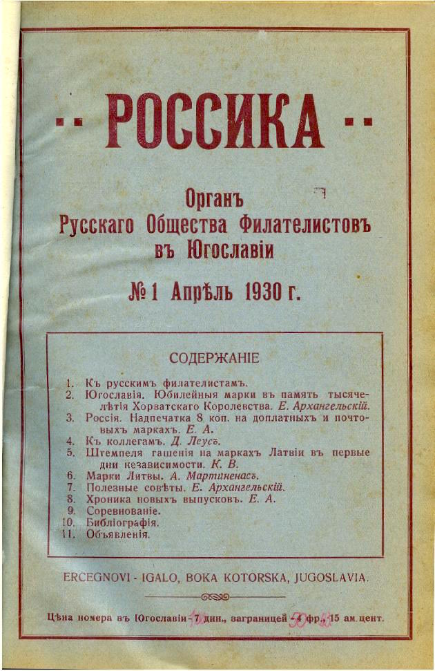 Rossica Journal of Russian Philately, 1930, No. 1, title page. Published in Herceg Novi - Igalo, Bay of Kotor, Yugoslavia.